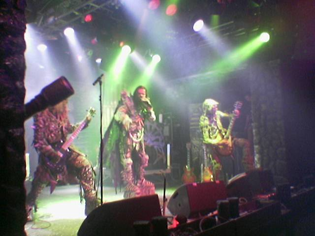 Lordi live in Moscow 5 november 2005